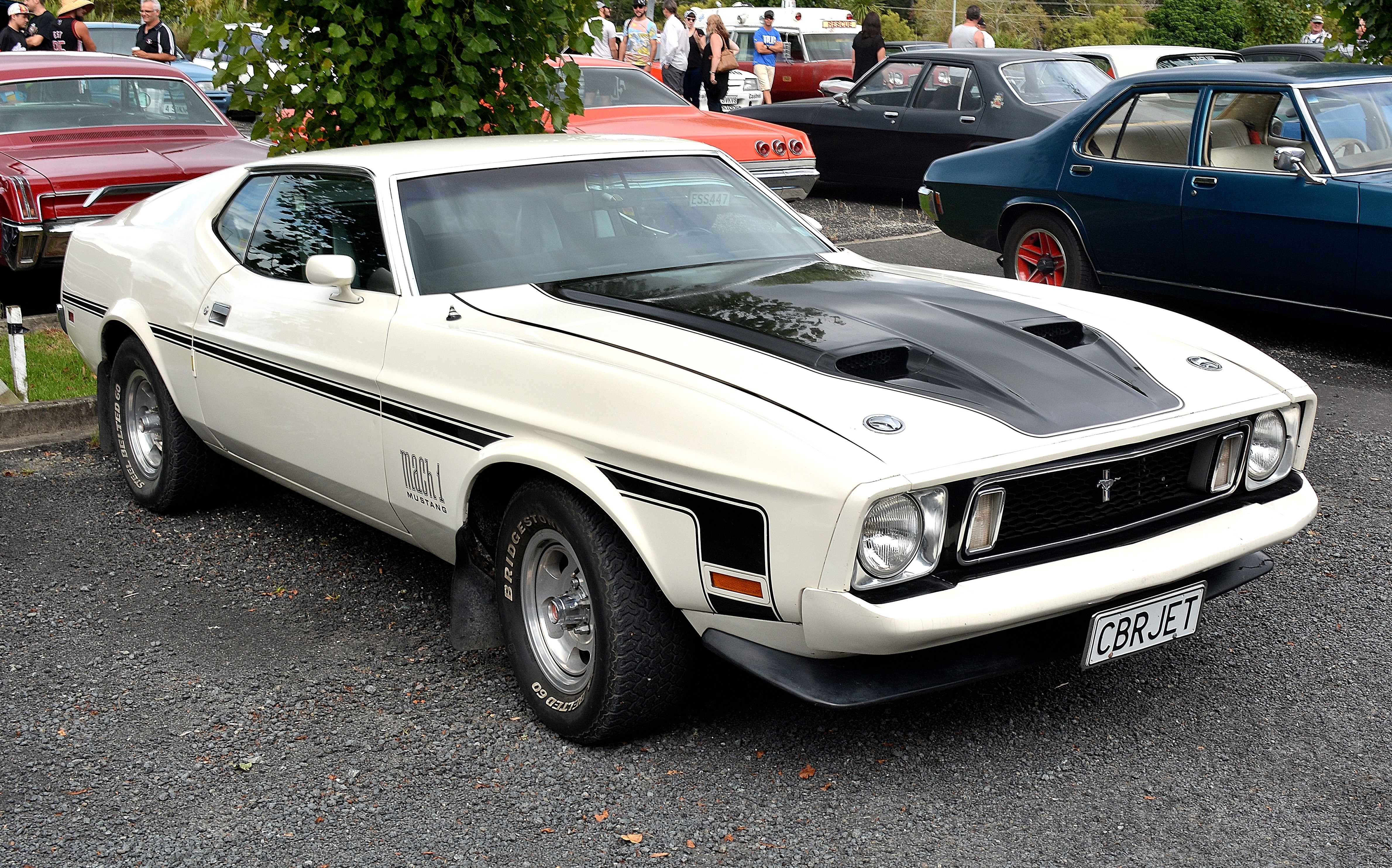 Smale Farm,Northcote.Auckland.New Zealand